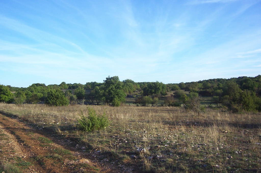 View of the causse of Gramat at the East of Montfaucon in Lot, France.